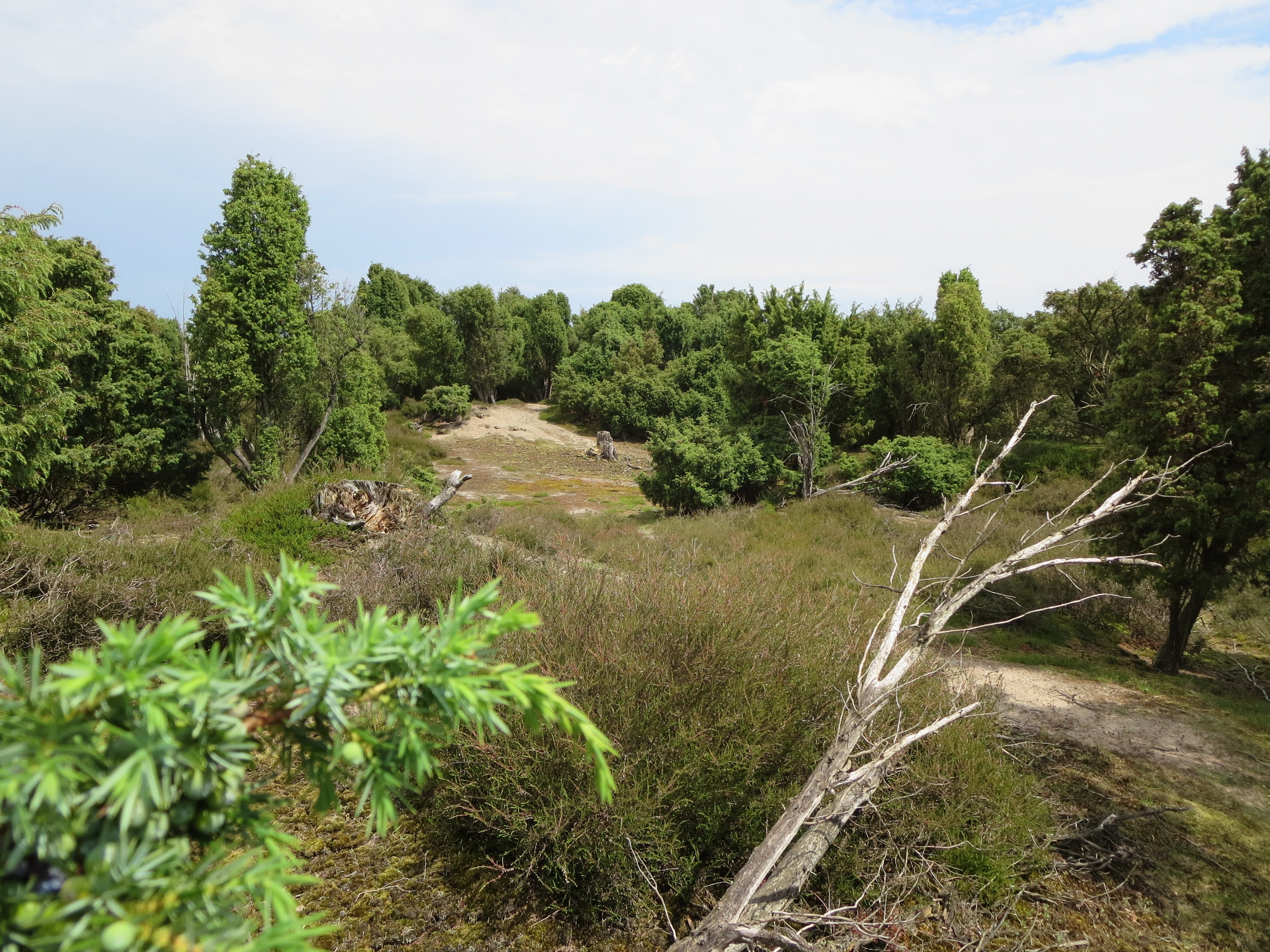 view of the characteristic countryside with heathers and junipers (picture taken in June)